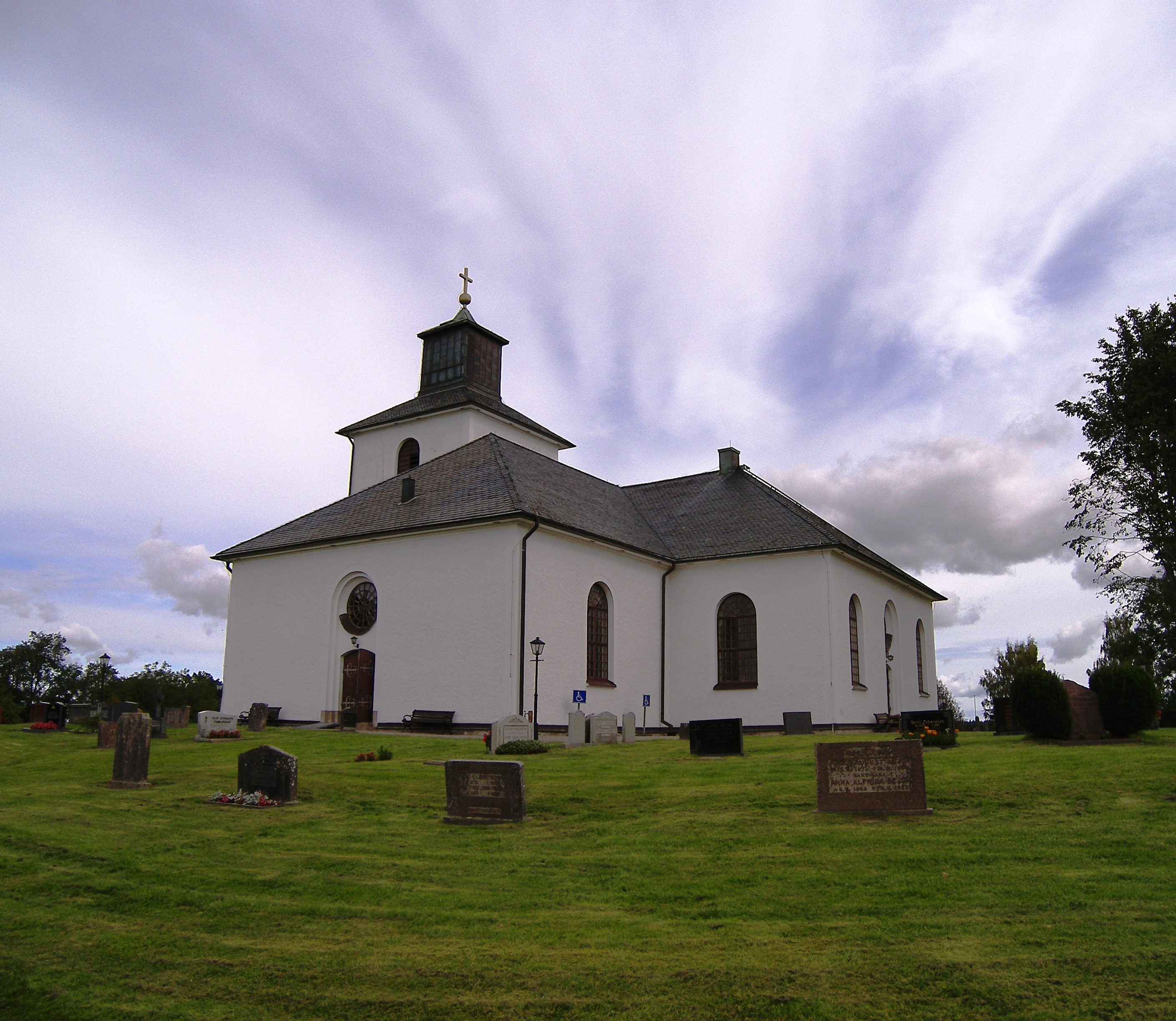 Church of Dimbo-Ottravad